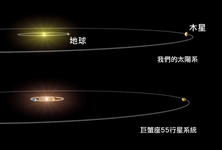 Our solar system compared with the solar system of 55 Cancri